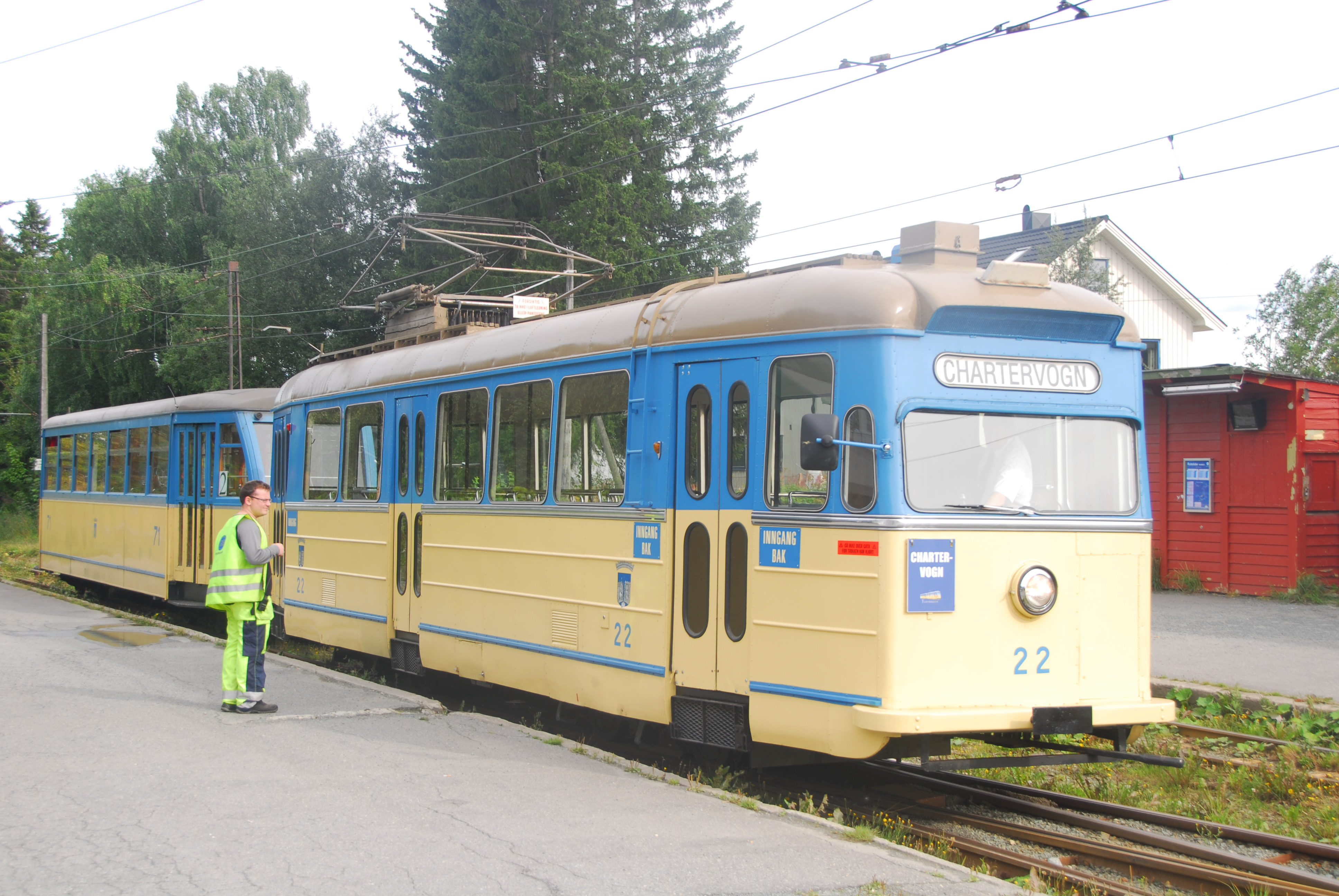 A Class 7 Strømmen-tram and Leopold trailer of the Trondheim Tramway, now a charter train operated by the Trondheim Tramway Museum; picture taken at Munkvoll Station on the Gråkallen Line.